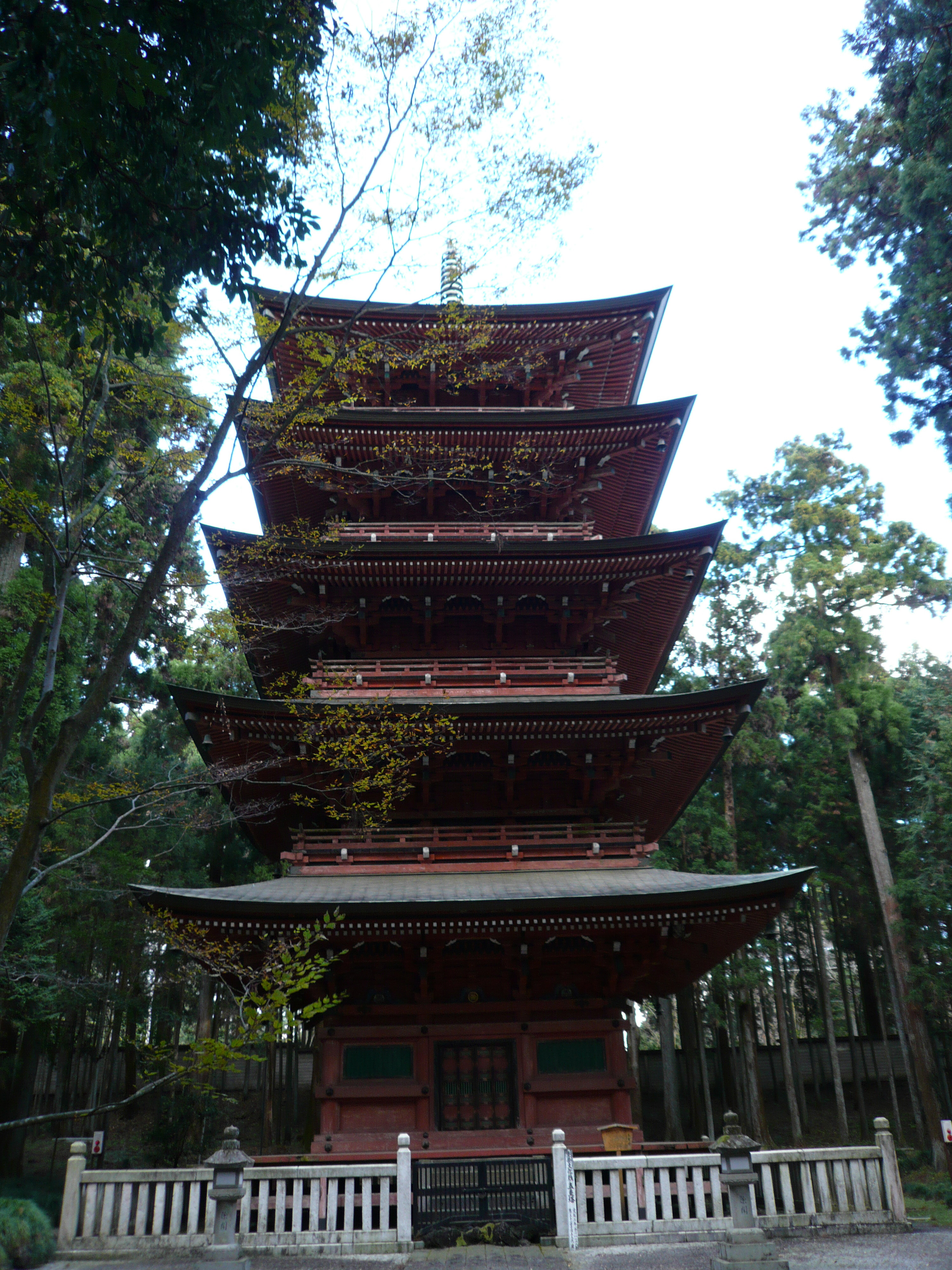 The five-storied pagoda at Taisekiji, Fujinomiya, Shizuoka, Japan. Private photo released into the public domain.